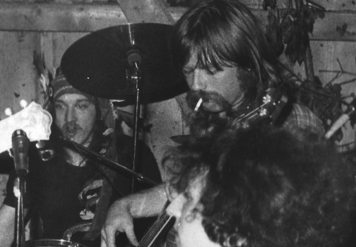 Andre Schnisa playing bass for german rock group "Schwoissfuass"